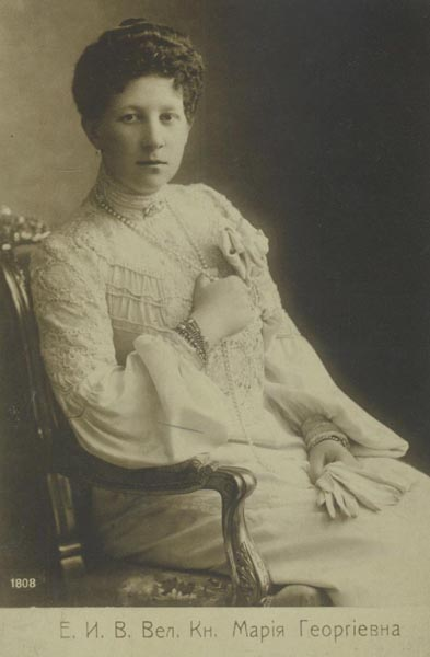 Princess Maria of Greece and Denmark (Grand Duchess Maria Georgievna)